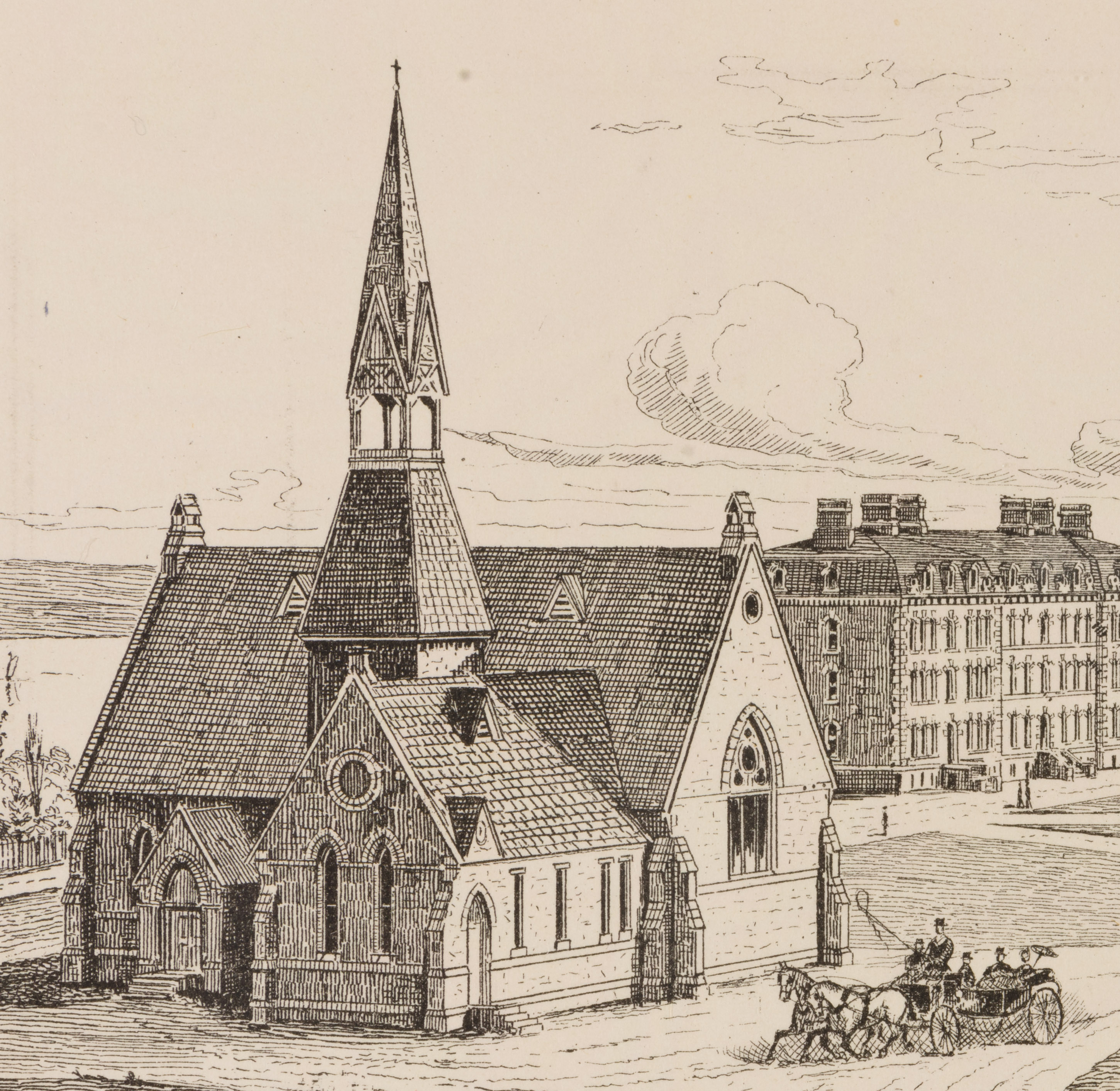 Cornell buildings and campus from the Sage College. From a Photograph by Professor Hartt.